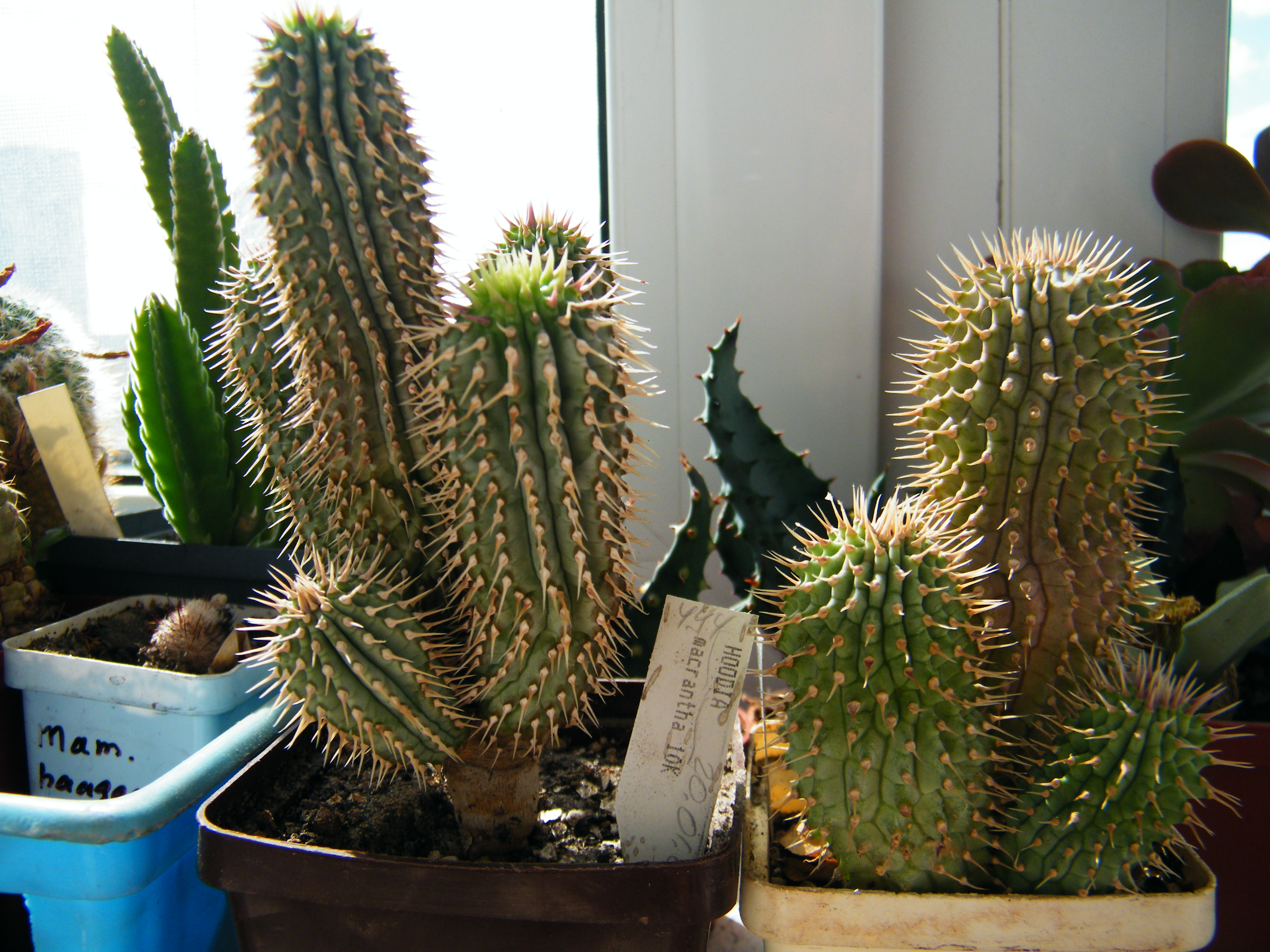 Hoodia macrantha